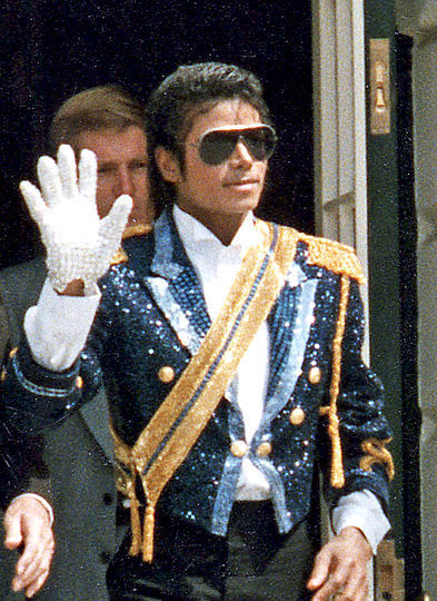 Michael Jackson